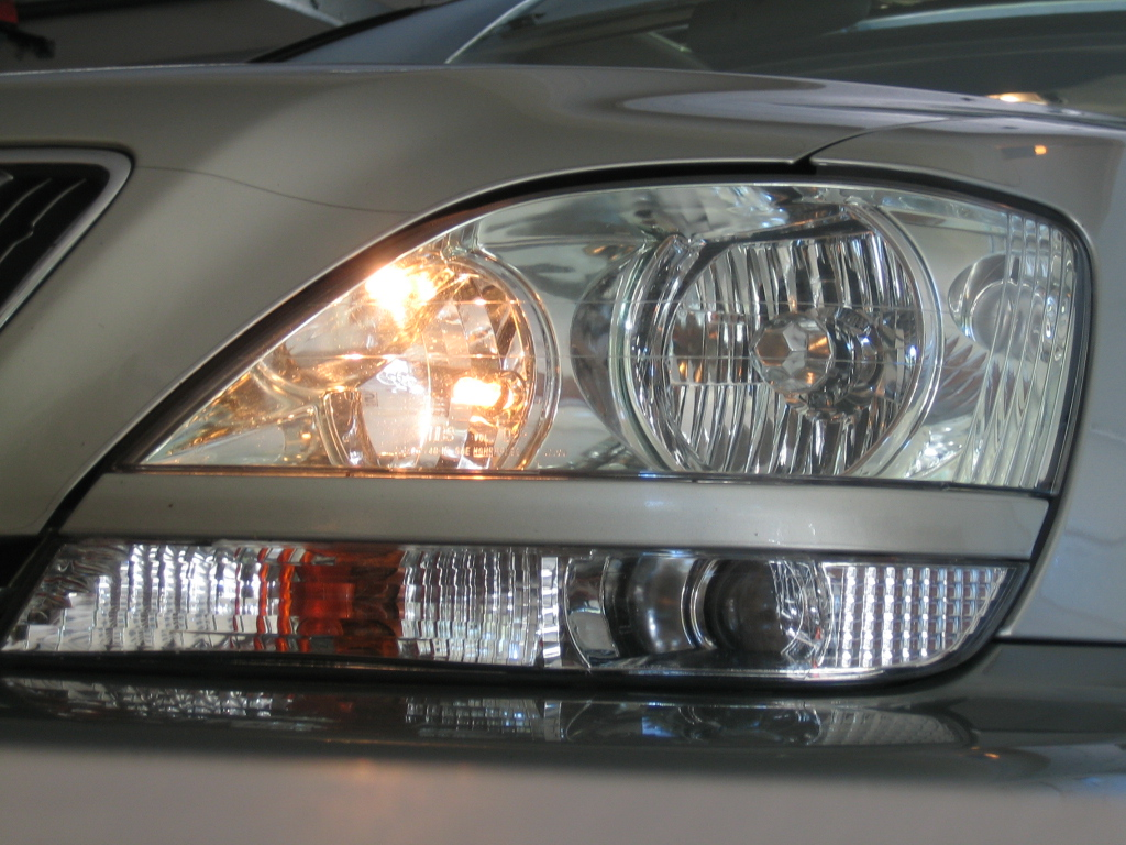 Reduced-voltage high-beam DRL on a US/Canada 2002 Lexus RX300. I took the picture myself.